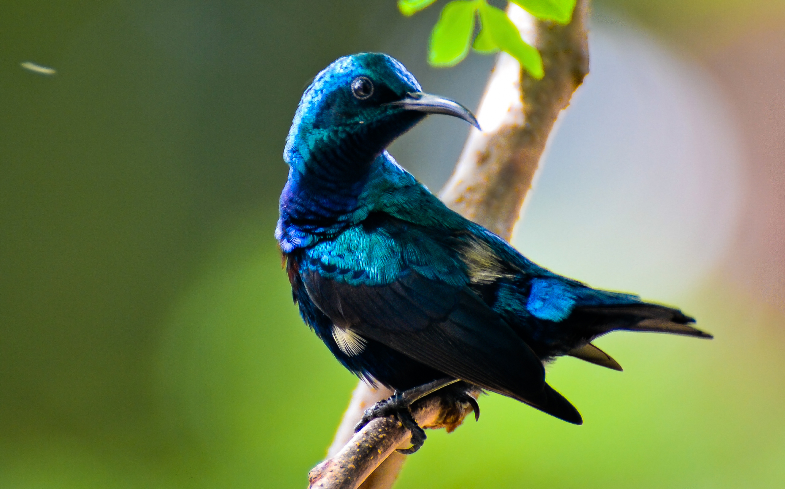 Male Purple Sunbird perched on a Moringa oleifera plant in Tirunelveli, Tamil Nadu, India.